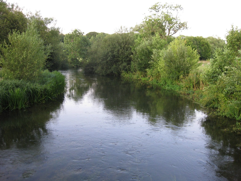 Wylye River from Manor Farm Bridge, Great Wishford, Wiltshire, England